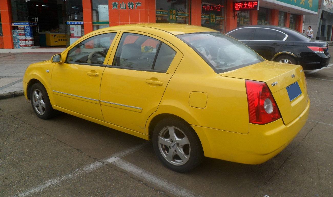 Chery A5 photographed in Tangkou, Anhui province, China.